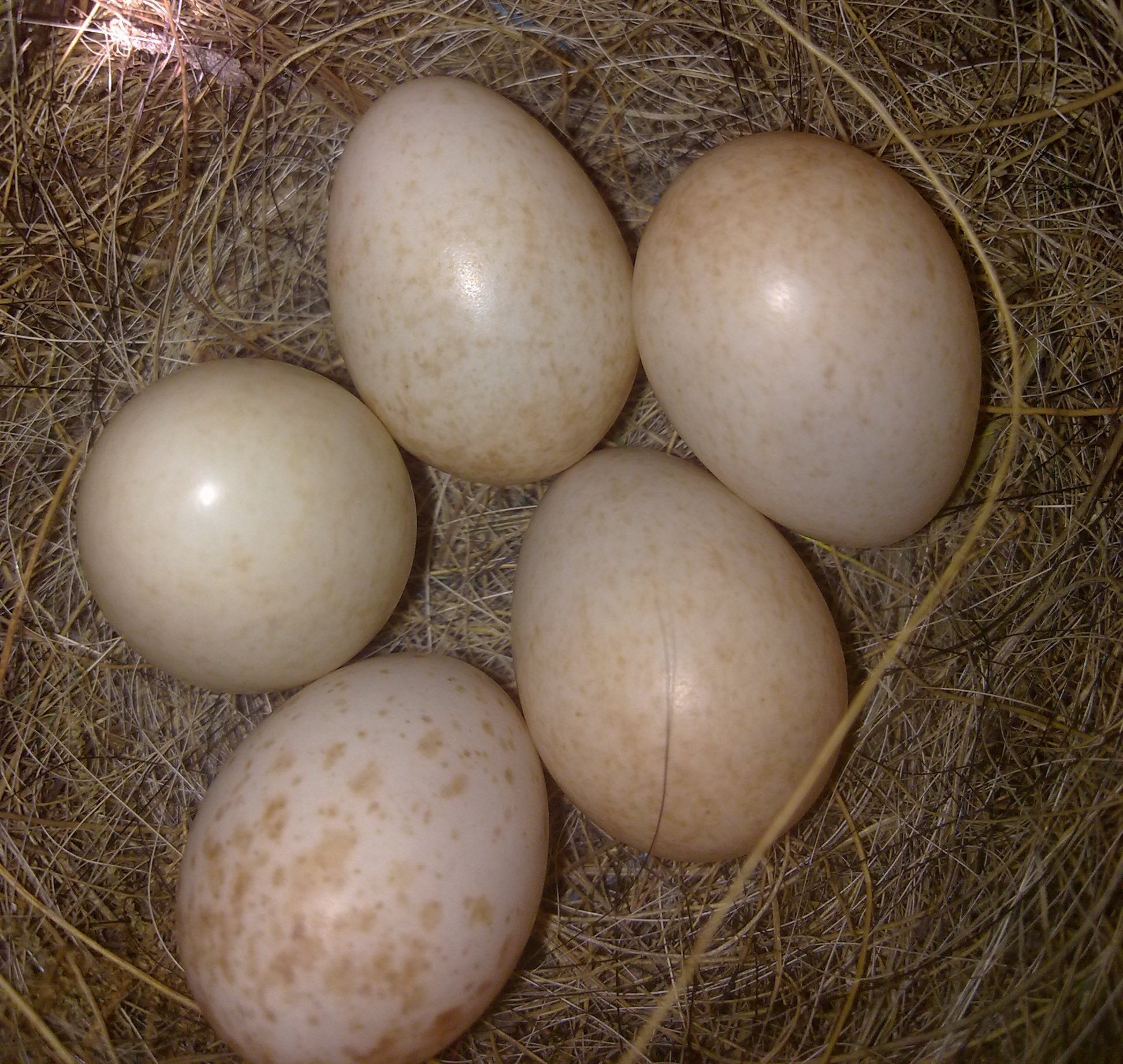 European Robin eggs. Photo taken without disturbing nest, whilst mother was away.